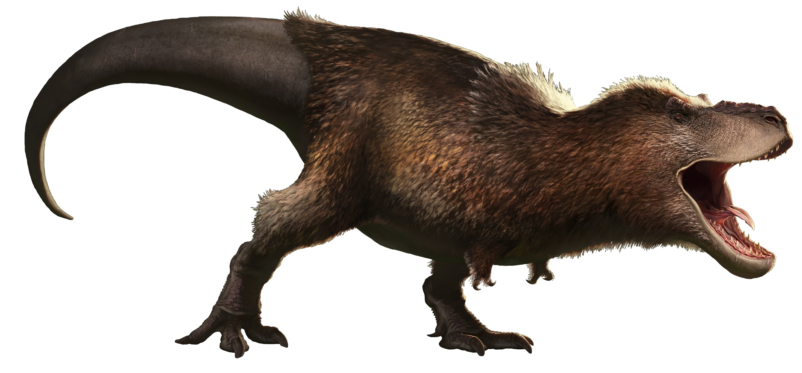 Life restoration of feathered Tyrannosaurus rex.